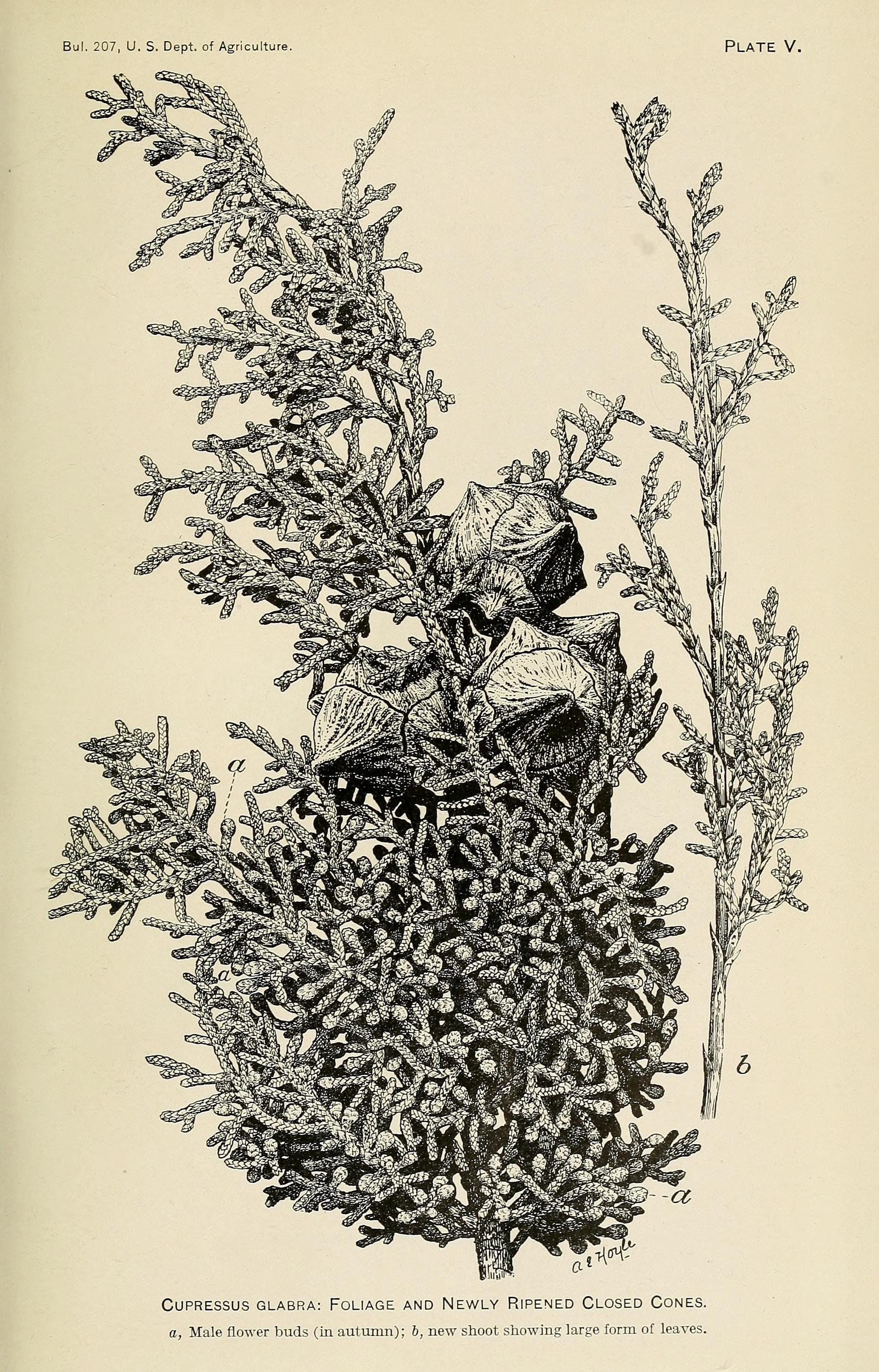 Title: Bulletin of the U.S. Department of Agriculture Year: 1913-1923. (1910s) Authors: United States. Dept. of Agriculture Subjects: Agriculture; Agriculture Publisher: (Washington, D. C. ?) : The Dept. : Supt. of Docs. , G. P. O. Text Appearing Before Image: Bui. 207, U. S. Dept. of Agricultur Plate V. Text Appearing After Image: CUPRESSUS GLABRA: FOLIAGE AND NEWLY RIPENED CLOSED CONES. a, Male flower buds (in autumn); 6, new shoot showing large form of leaves.